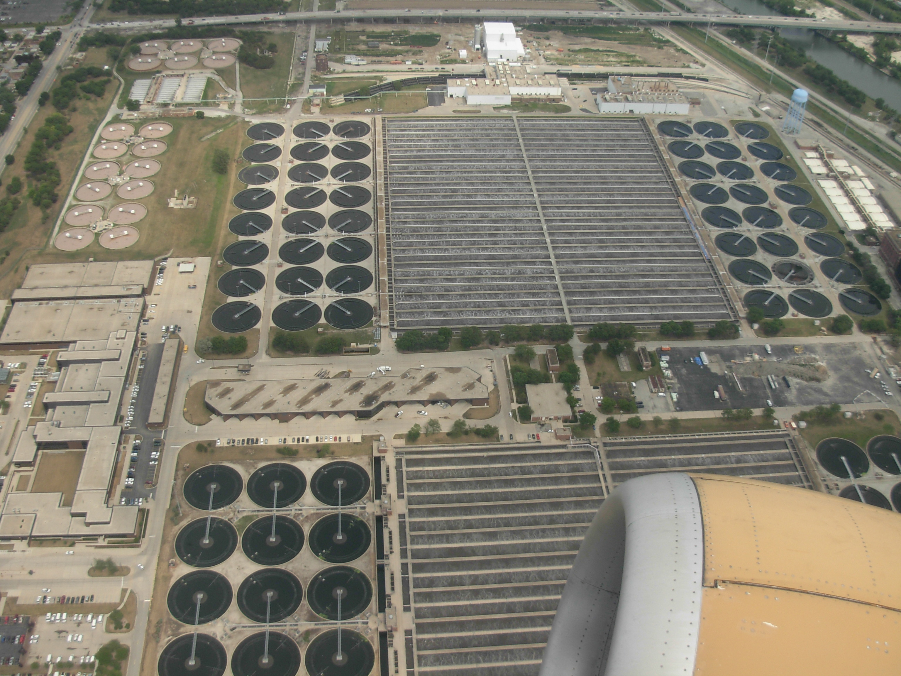 Stickney Water Reclamation Plant (Sewage treatment plant). The Metropolitan Water Reclamation District of Greater Chicago operates the largest wastewater treatment plant in the world, the Stickney Water Reclamation Plant in Stickney, Illinois, in addition to six other plants and 23 pumping stations.